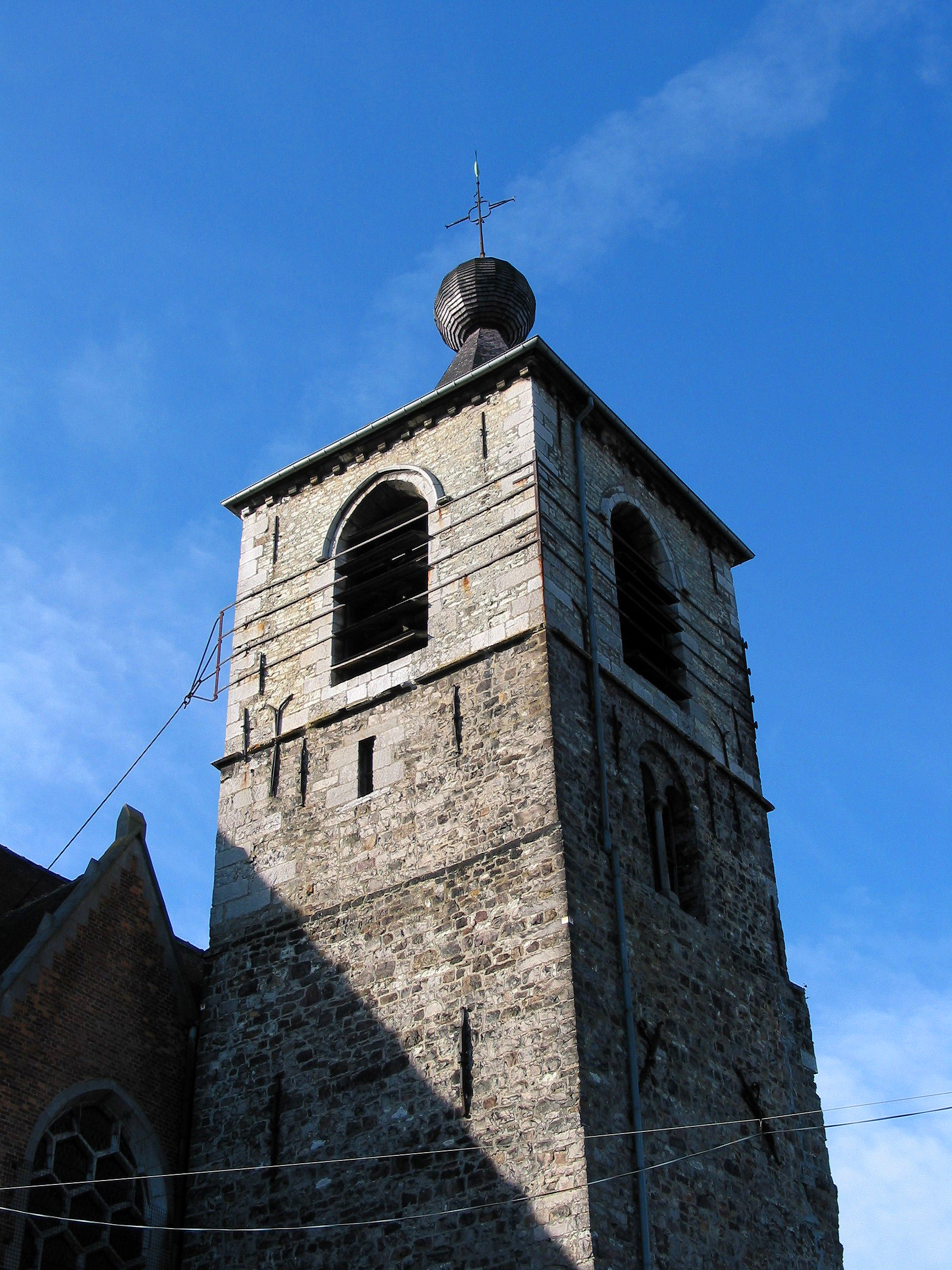 Anderlues (Belgium), tower of the previous Saint Medardus' church.